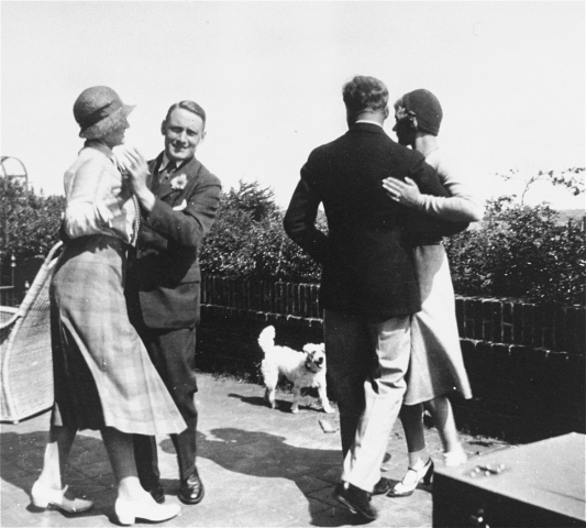 Willem Arondeus (left) and writer A. Roland Holst (right) dancing at a garden party.